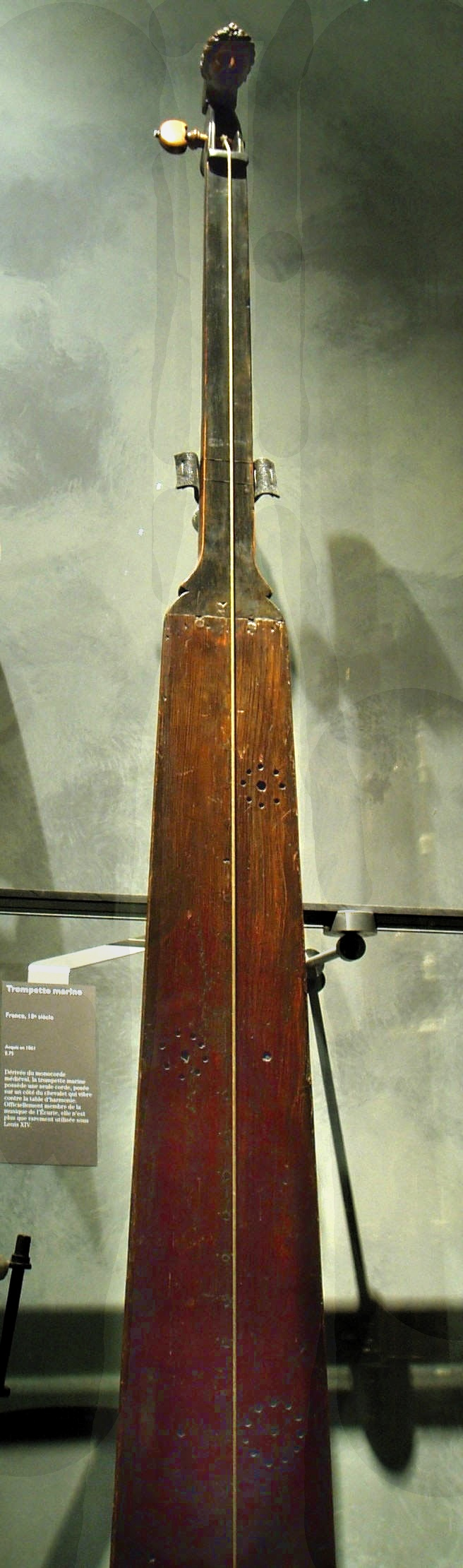 Marine trumpet, French, 18th century, Paris, Musée de la musique